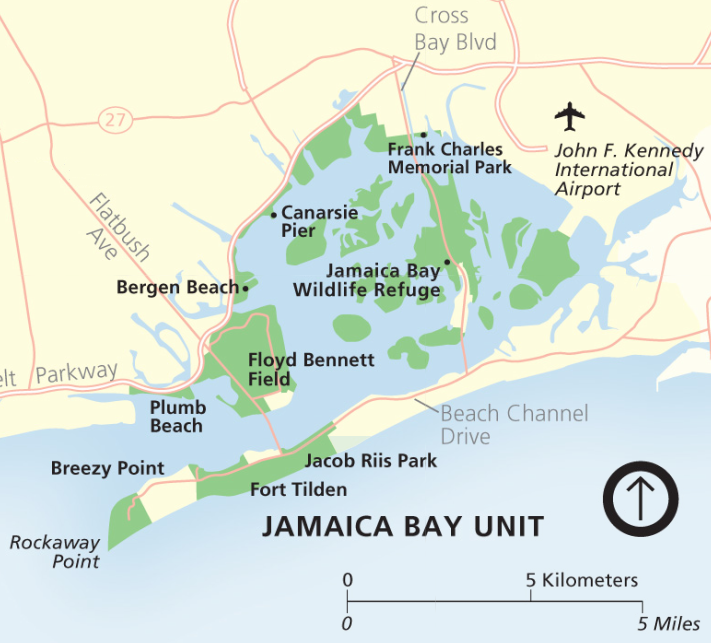 Map of the Jamaica Bay Unit — of the Gateway National Recreation Area, in New York City.